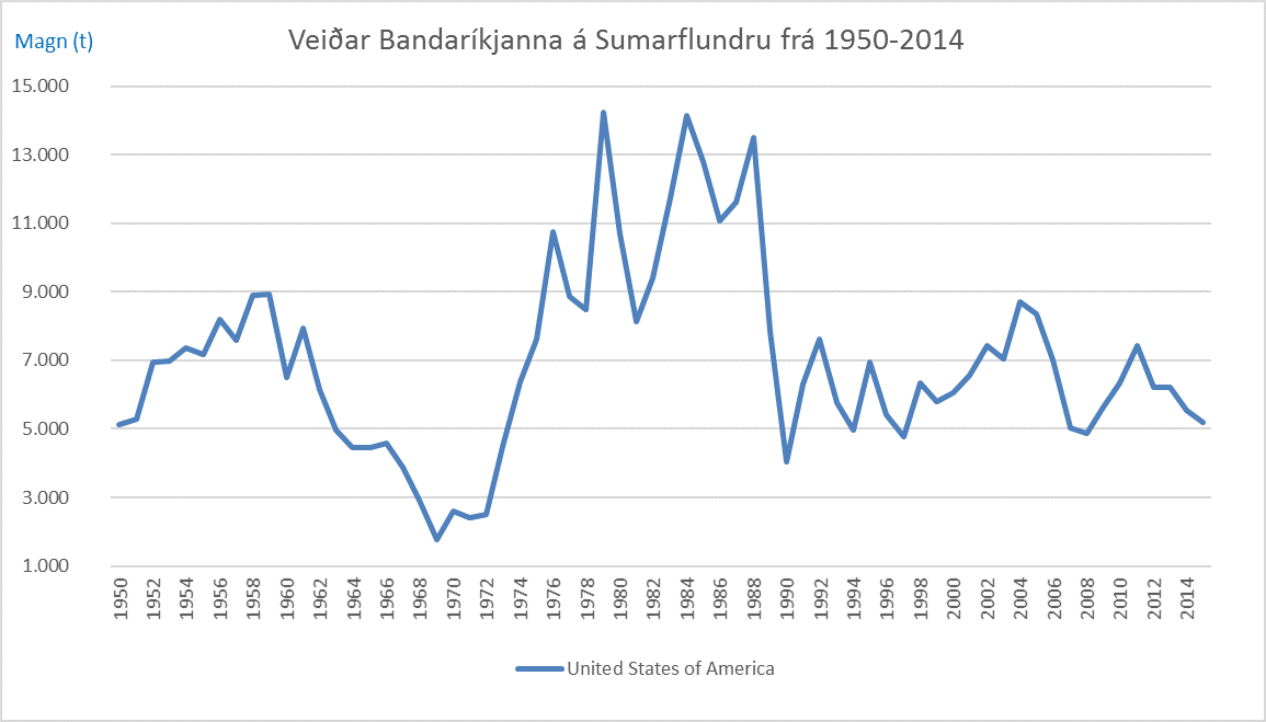 Fishing of Summer flounder in America